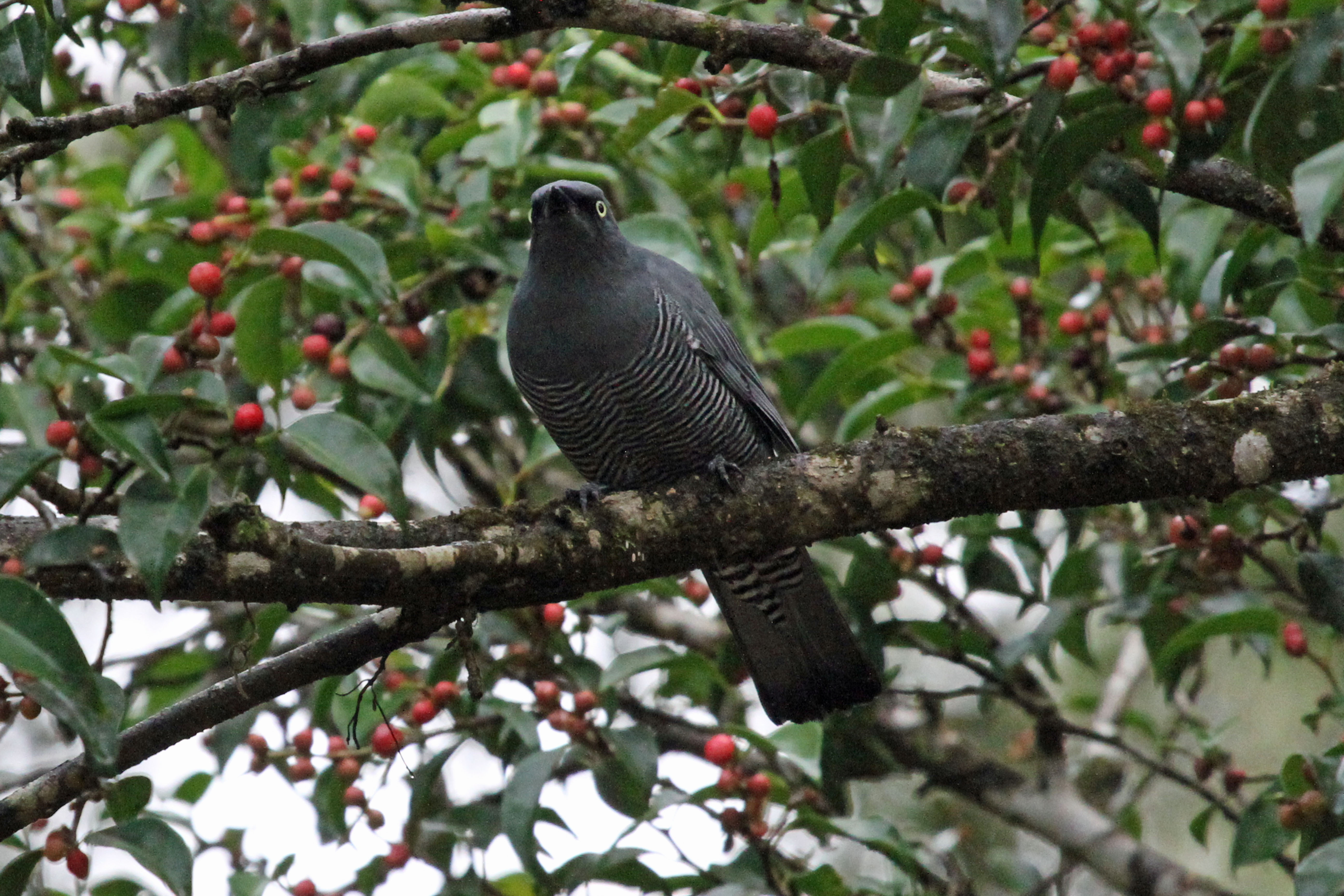 Barred Cuckoo-shrike